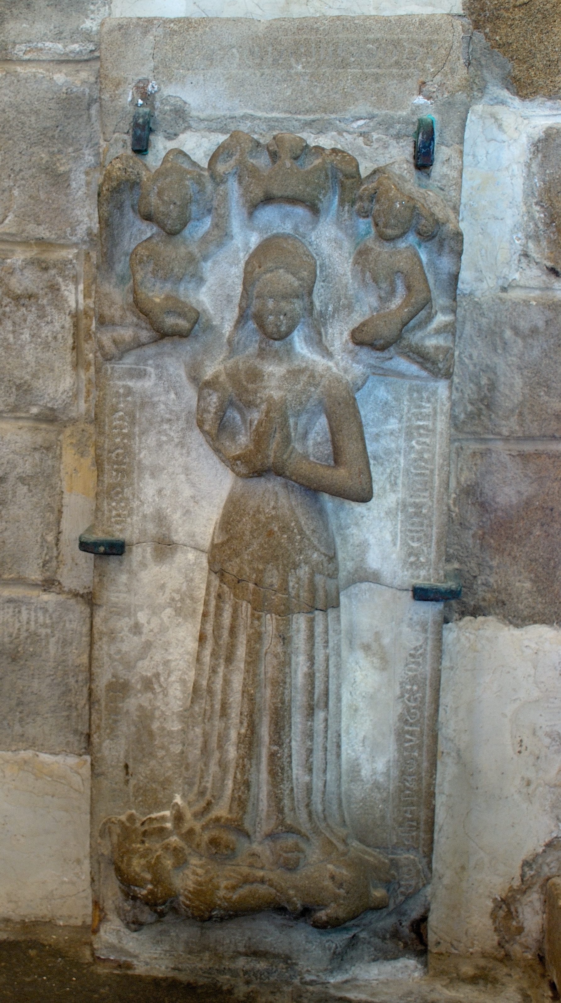 Abbey-church of Saint-Gildas-de-Rhuys: tomb-stone of Jeanne de Bretagne daughter of Jean the 4th of Bretagne and Jeanne of Navarre (Morbihan, France)